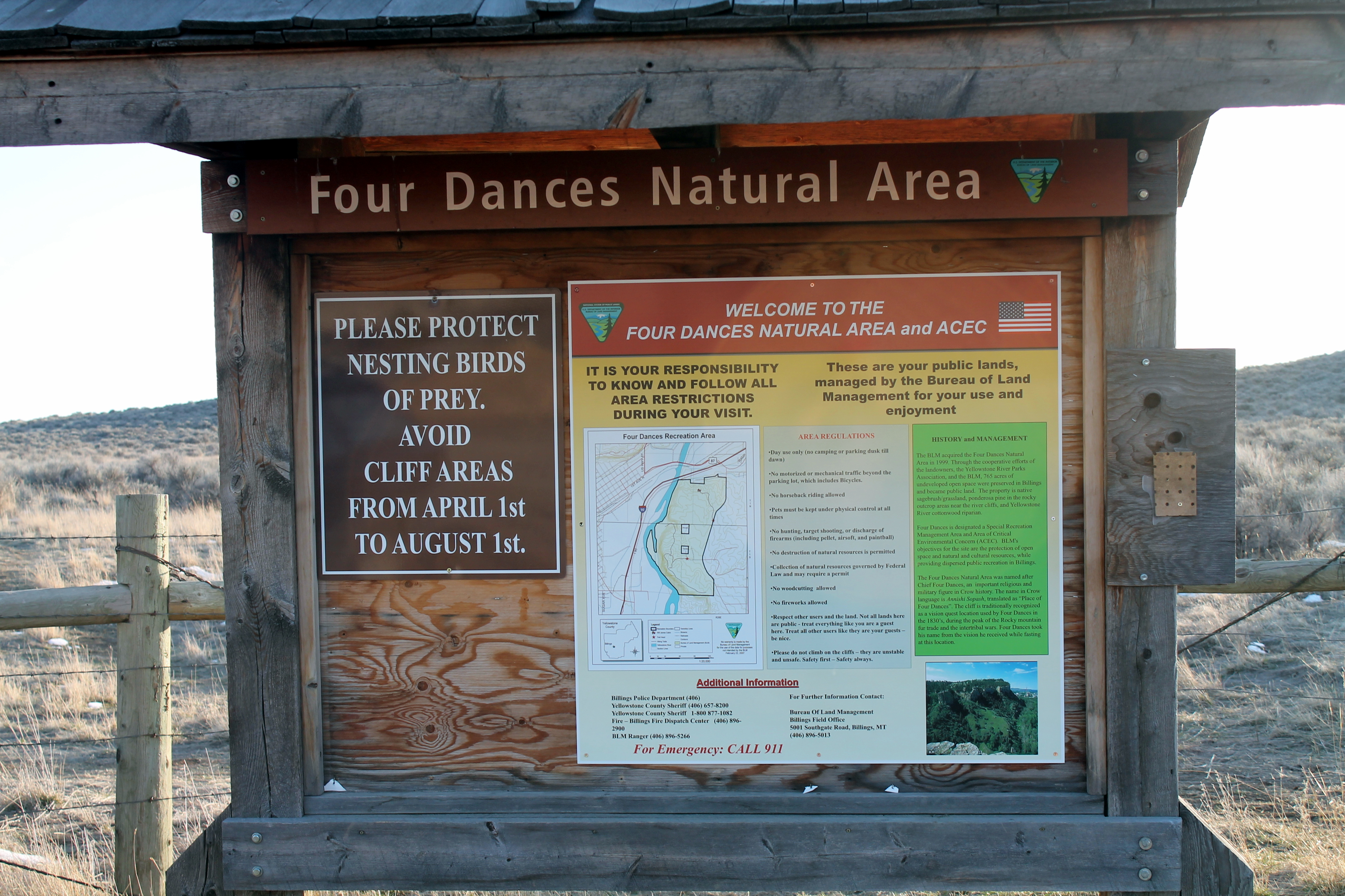 The sign entering Four Dances Nature Area outside of Billings, Montana on Coburn Hill.